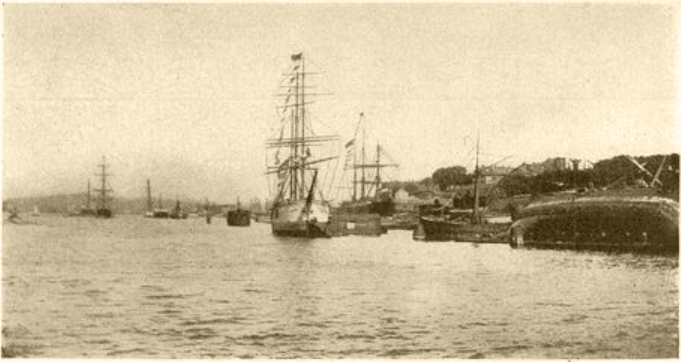 The Old wharf Gothenburg Sweden from the sea. Photo in the book Det gamla Göteborg. Lokalhistoriska skildringar, personalia och kulturdrag / Del 1 (1919-1924) by Carl Rudolf A:son Fredberg via Project Runeberg.